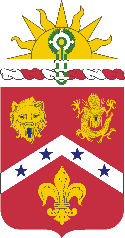 US 3d Field Artillery Regiment Coat of Arms. Contents 1 Blazon 2 Symbolism 3 Licensing 4 Original upload log 5 Original upload log Blazon Shield: Gules, on a chevronel Argent four mullets Azure, in chief a lion's face and an imperial Chinese dragon affronté both Or, langued of the third, in base a golden fleur-de-lis. Crest: On a wreath of the colors Argent and Gules, a demi-sun Or charged with an Aztec banner Very garnished Argent. Motto: CELERITAS ET ACCURATIO (Speed and Accuracy). Symbolism The shield is scarlet for Artillery. The Civil War is represented by the chevron and four stars, one for each battery in that war. The lion's face, dragon, and fleur-de-lis allude to the War of 1812, China Relief Expedition, and World War I, respectively. The rising sun on the crest indicates the regiment dates back nearly to the dawn of this country's history (Battery "D" was organized in 1802), and the Aztex banner is for the Mexican War. Obtained from US Army Institute of Heraldry at